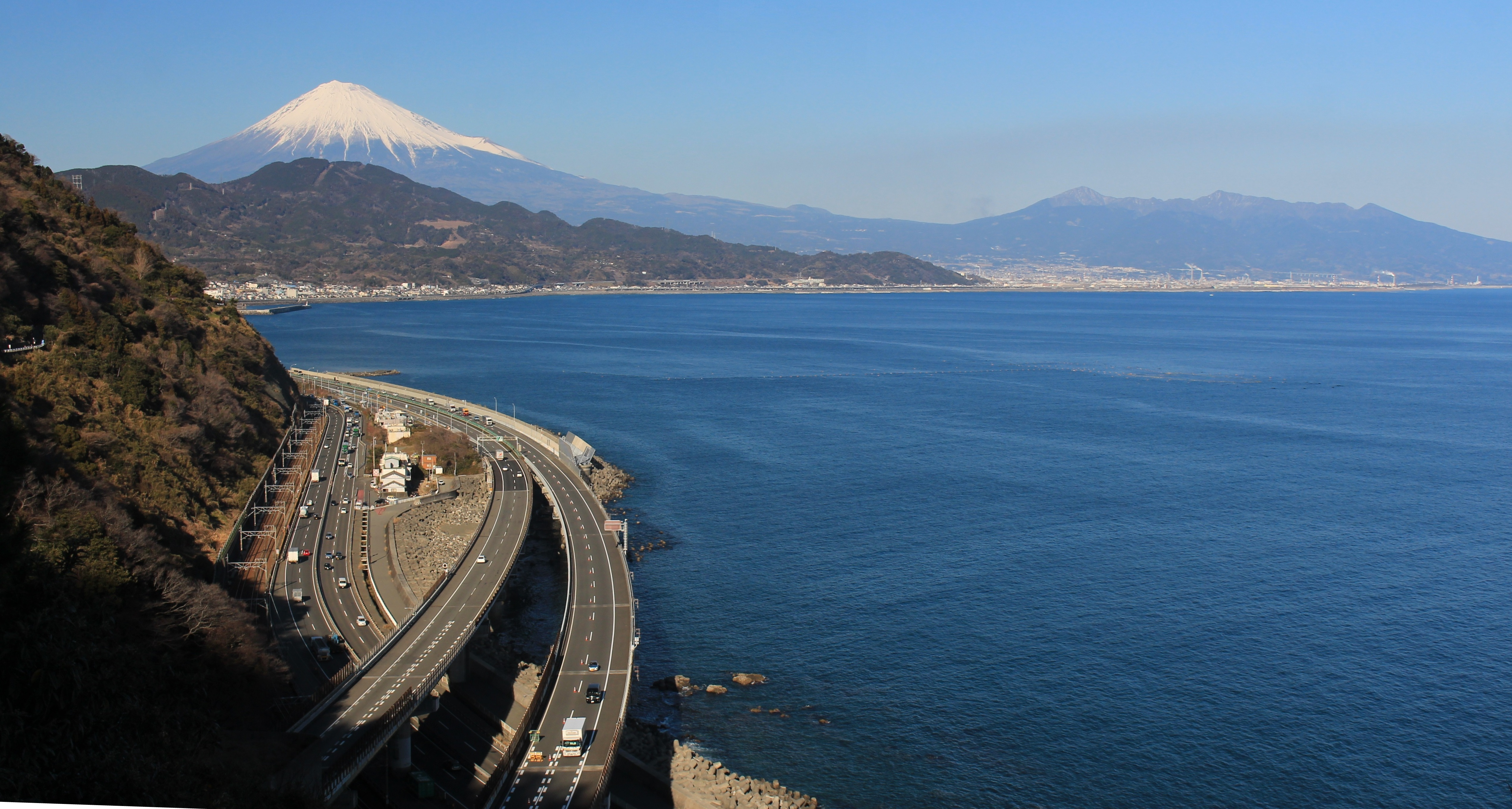 Mount Fuji and the Ashitaka Mountains seen from the Satta Pass in Shizuoka Prefecture, Japan